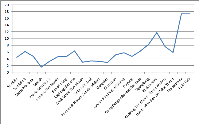 Graph depicting the highest-grossing Malaysian movies by year from 1994 and beyond.